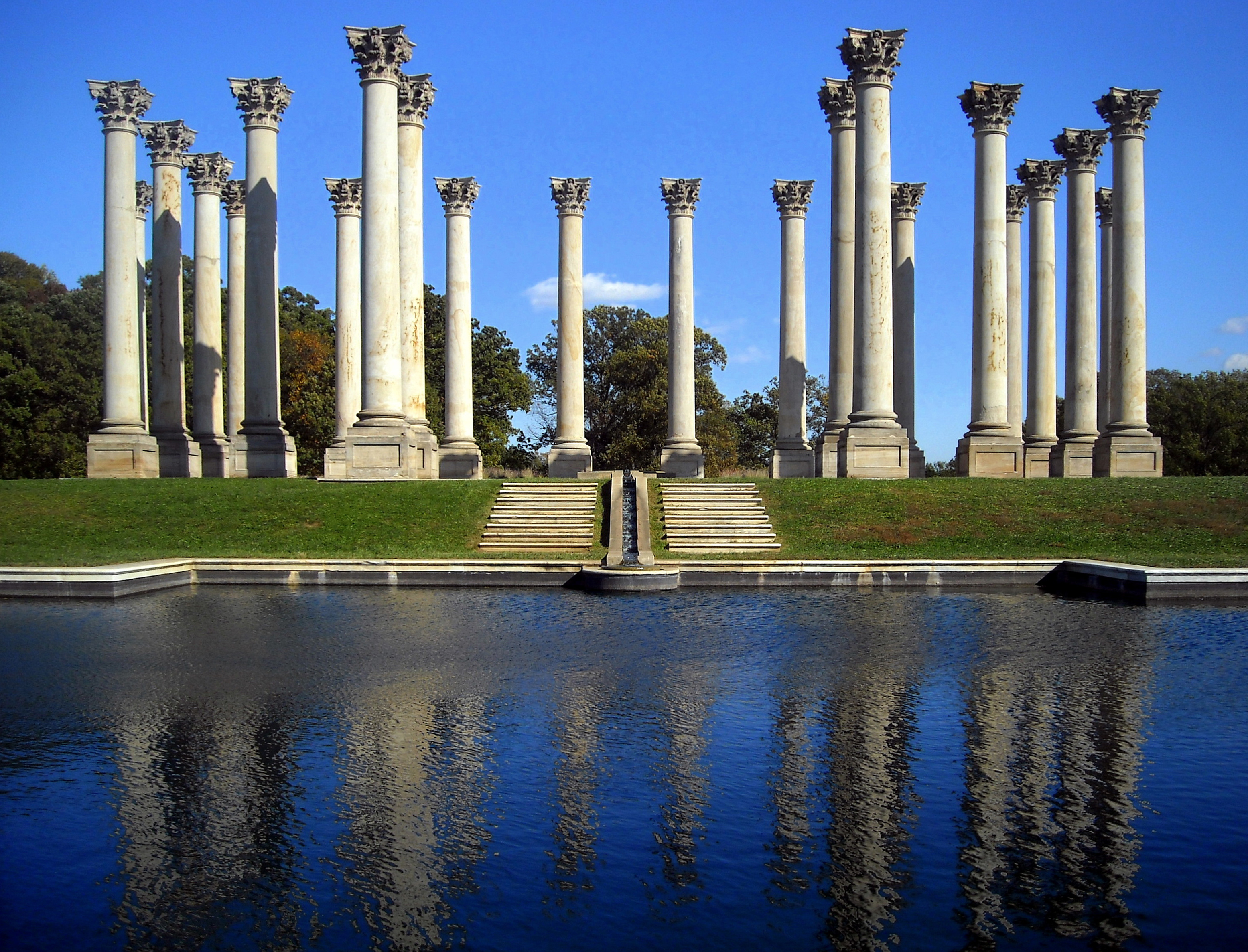 The National Capitol Columns located at the United States National Arboretum in Washington, D.C. The columns originally supported the old East Portico of the United States Capitol (1828). They were removed during expansion of the Capitol in 1958 and placed in the National Arboretum during the 1980s.